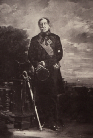 Portrait of Sir Alexander Woodford. Photograph of portrait at Gibraltar, 1879 Our Catalogue Reference: Part of CO 1069/709 This image is part of the Colonial Office photographic collection held at The National Archives. Feel free to share it within the spirit of the Commons For high quality reproductions of any item from our collection please contact our image library.